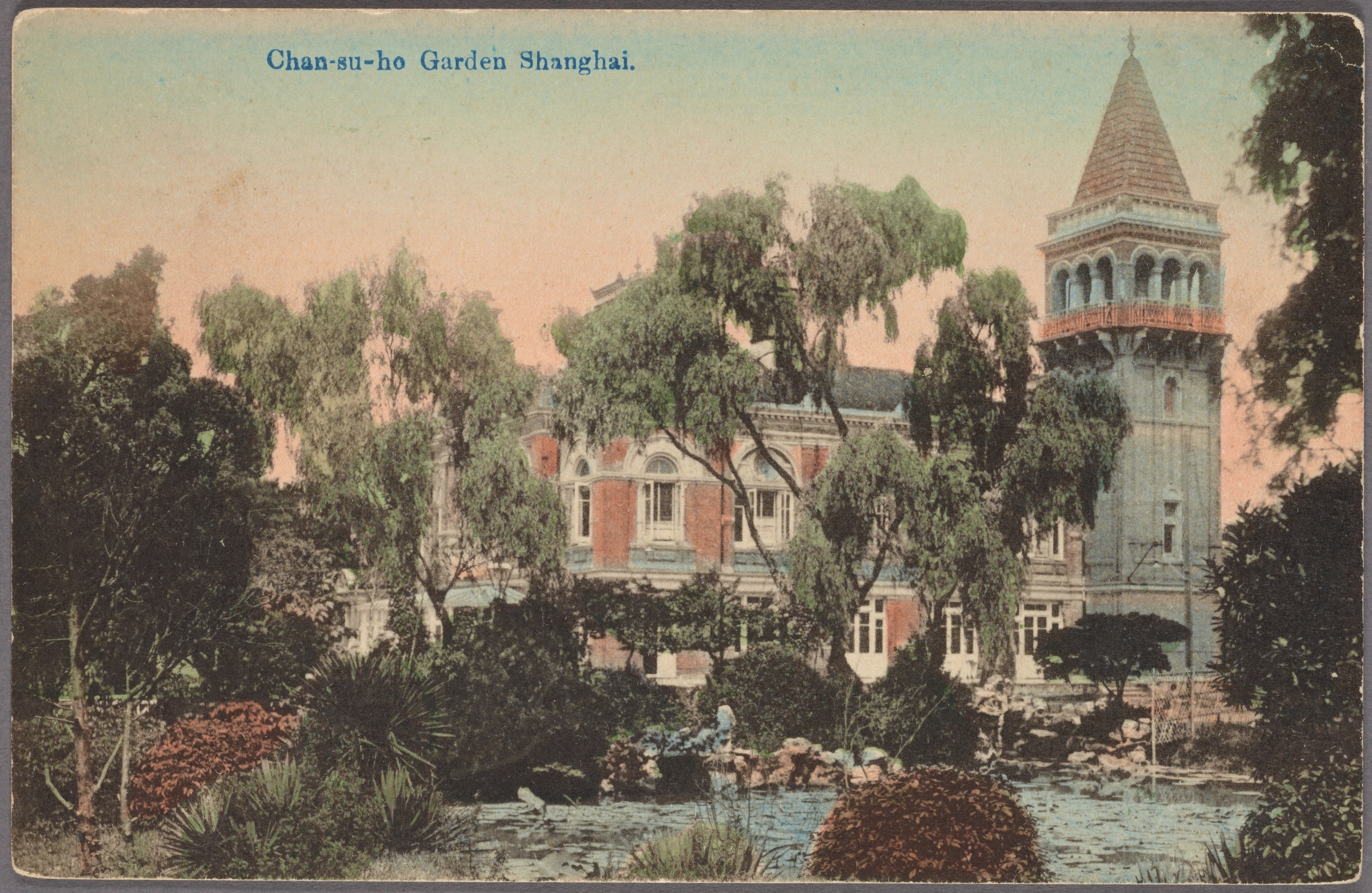 Arcadia Hall in Zhang Garden.